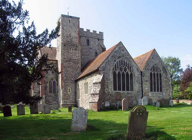 All Saints Church, Boughton Aluph, Kent